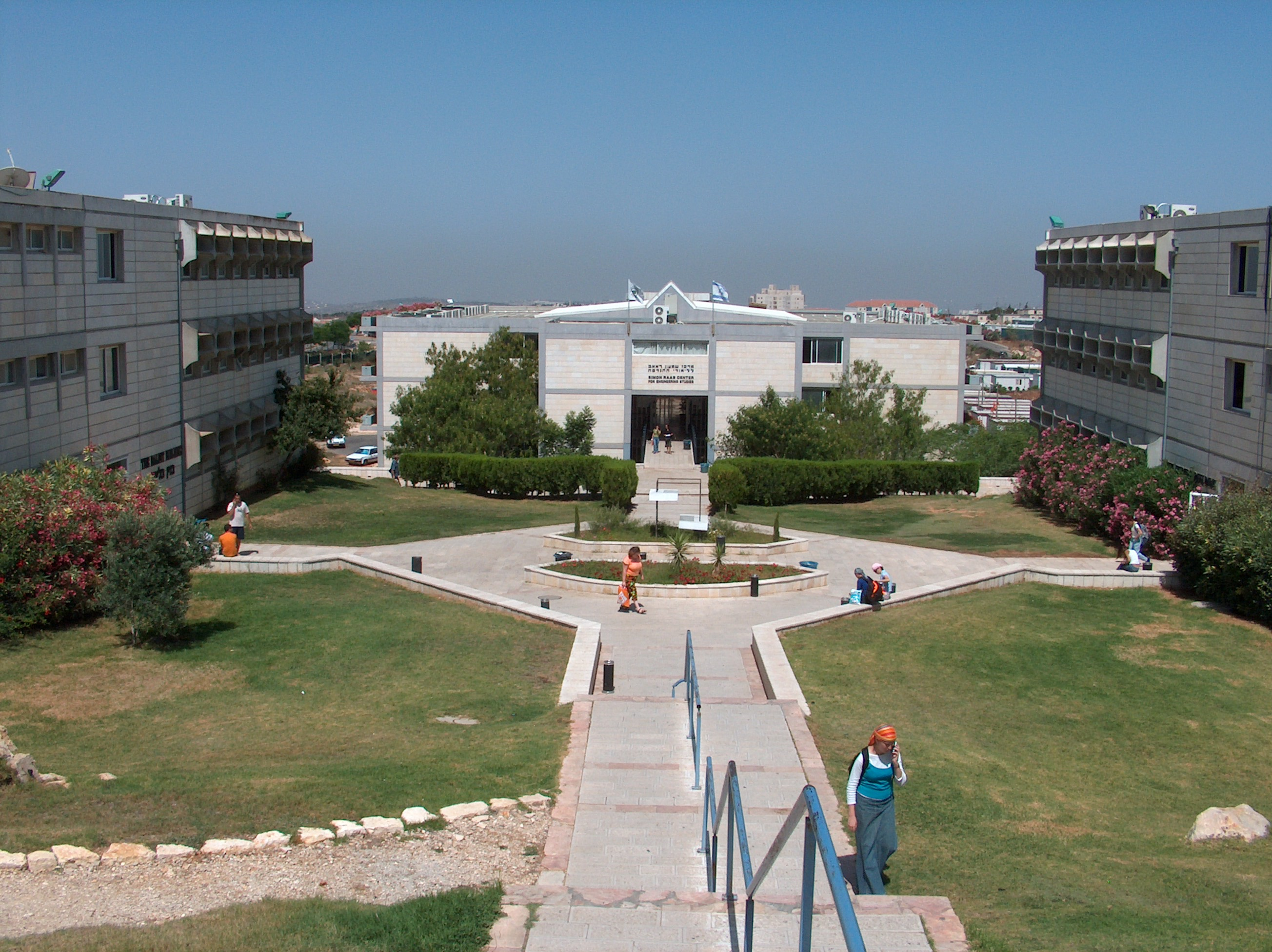 Ariel University Center of Samaria